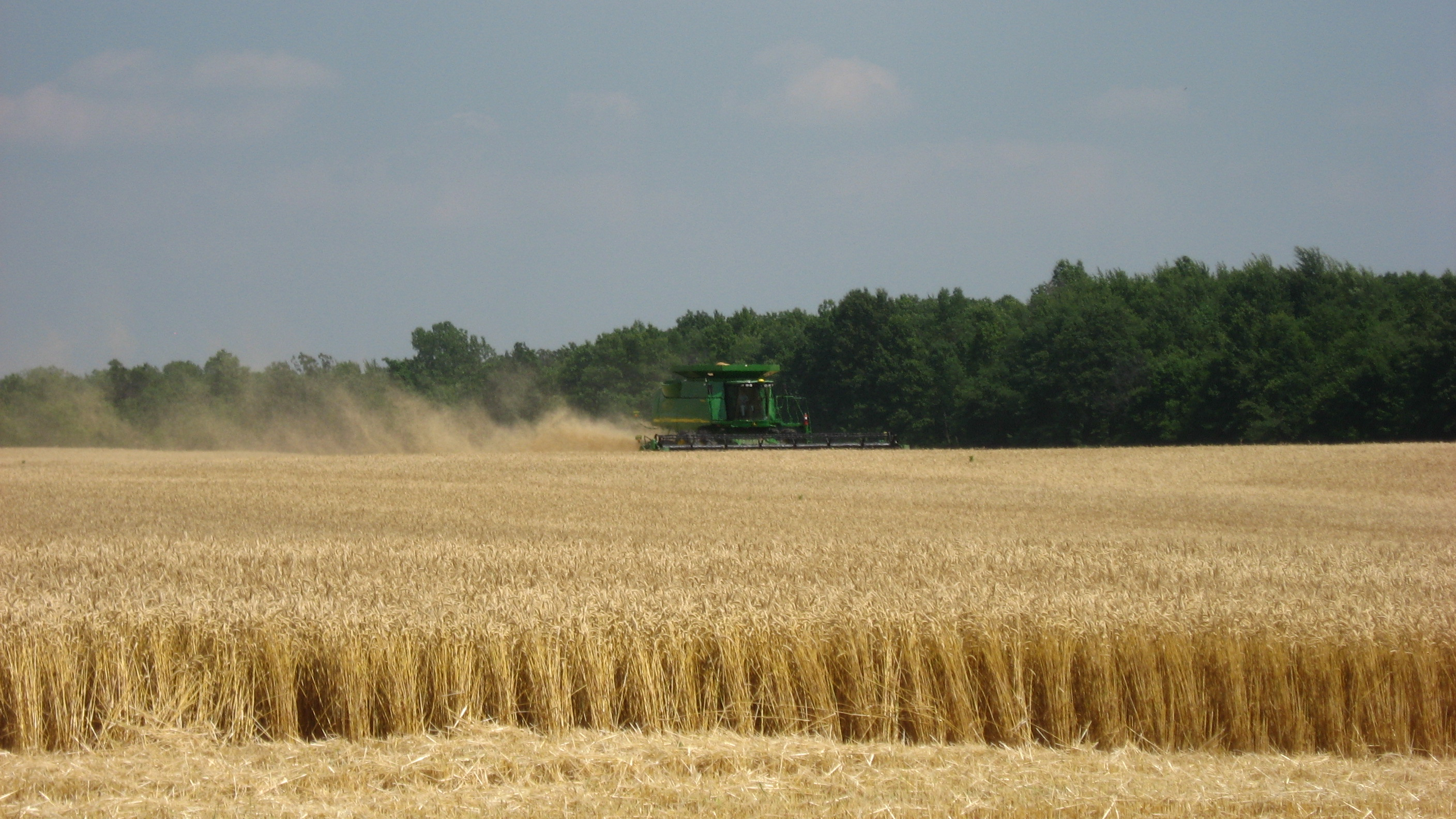 A combine harvesting wheat. Photo taken from Vernon Road south of its intersection with U.S. Route 224 west of Willard in Richmond Township, Huron County, Ohio, United States.